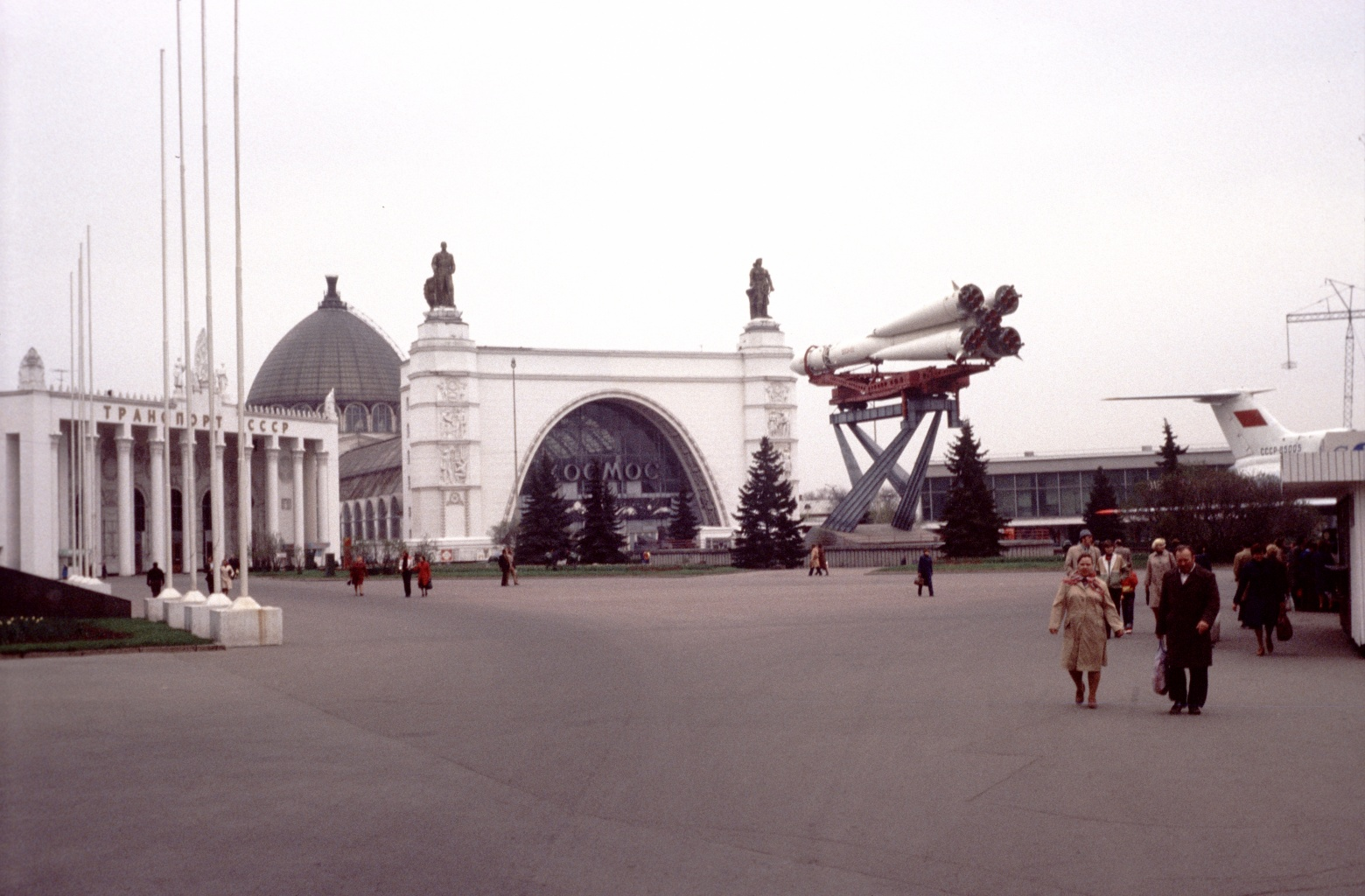 VDNKh, space pavillon in 1980